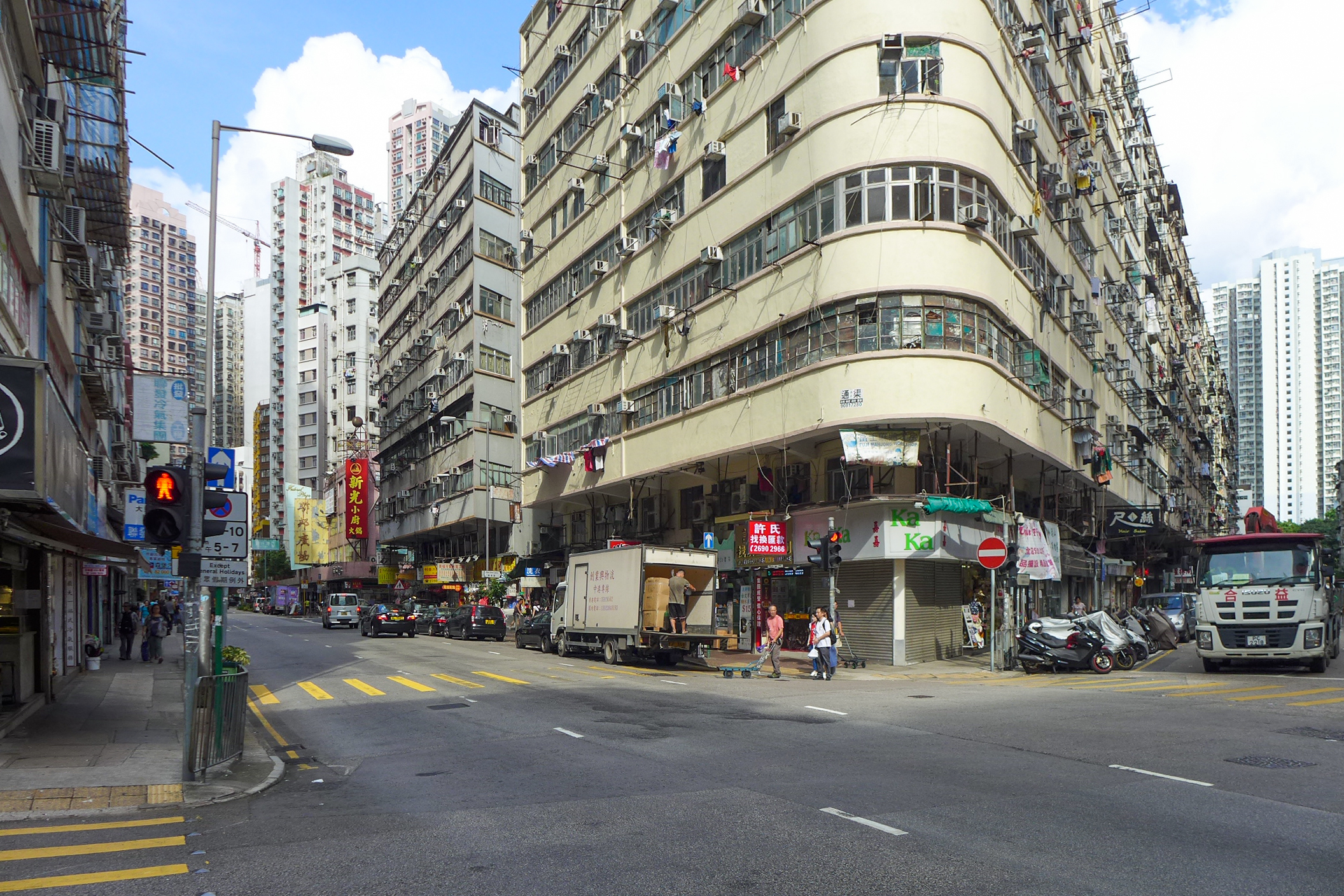 Castle Peak Road Cheung Sha Wan Section